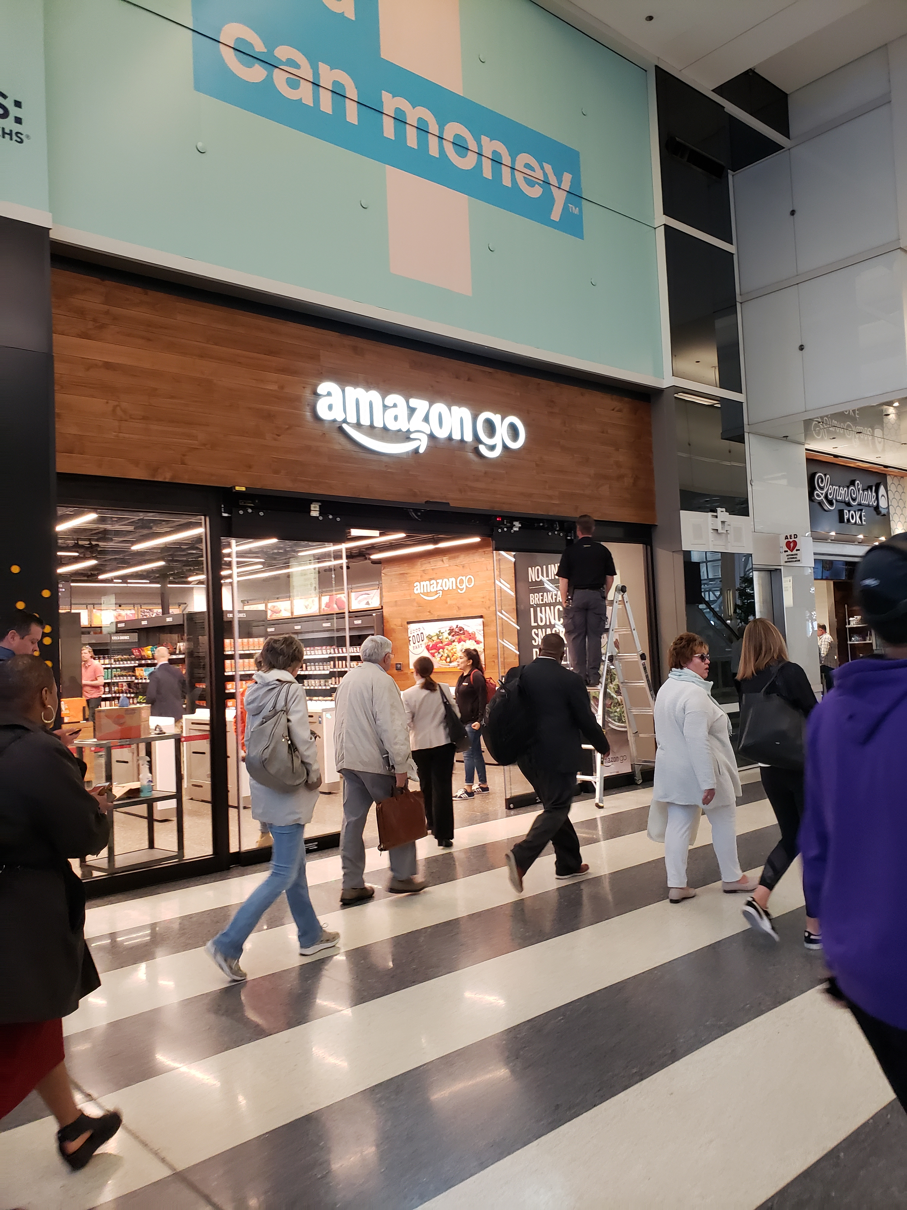 Chicago